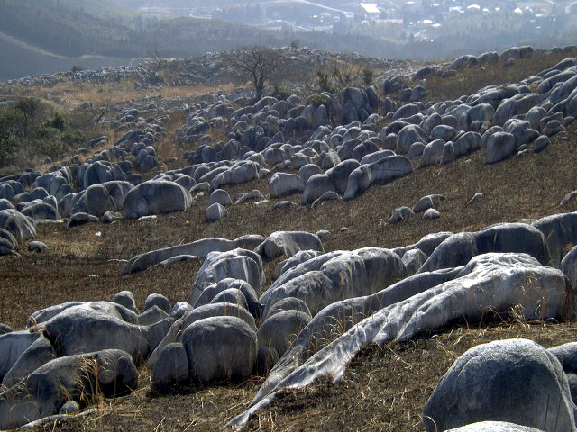 karrenfeld in Hiraodai,Japan